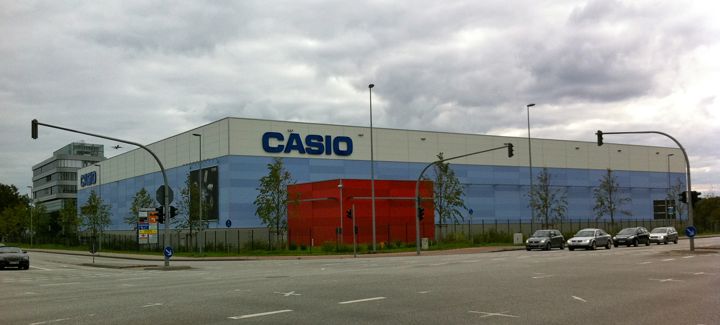 Norderstedt (Germany): Factory in the businespark Nettelkrögen in Garstedt